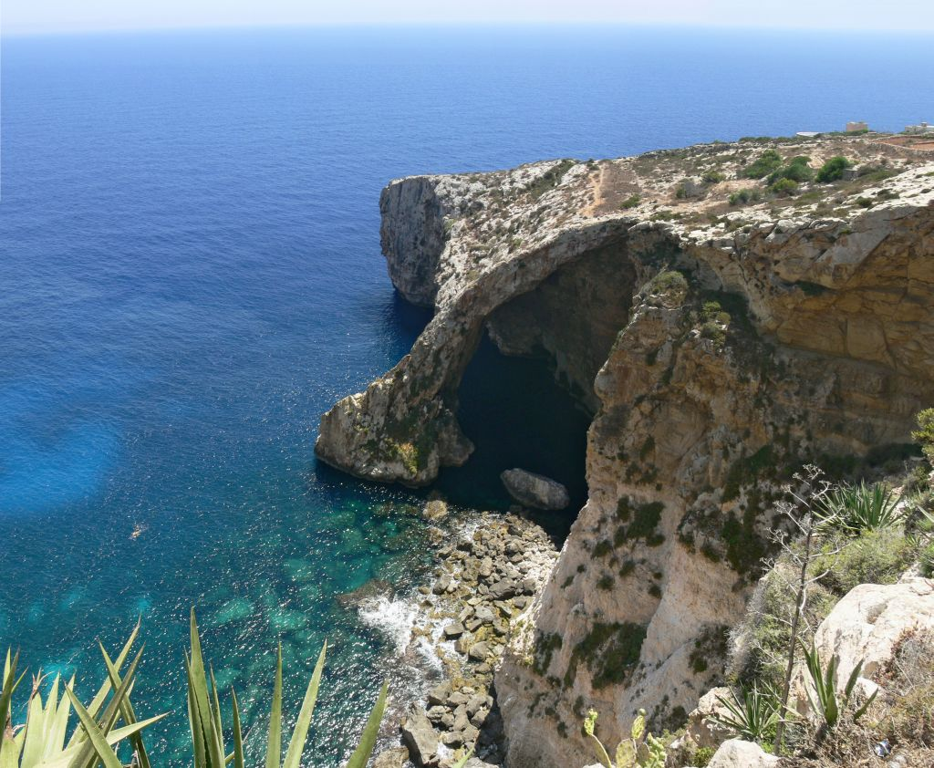 Il-Hnejja, the Blue Grotto in Malta